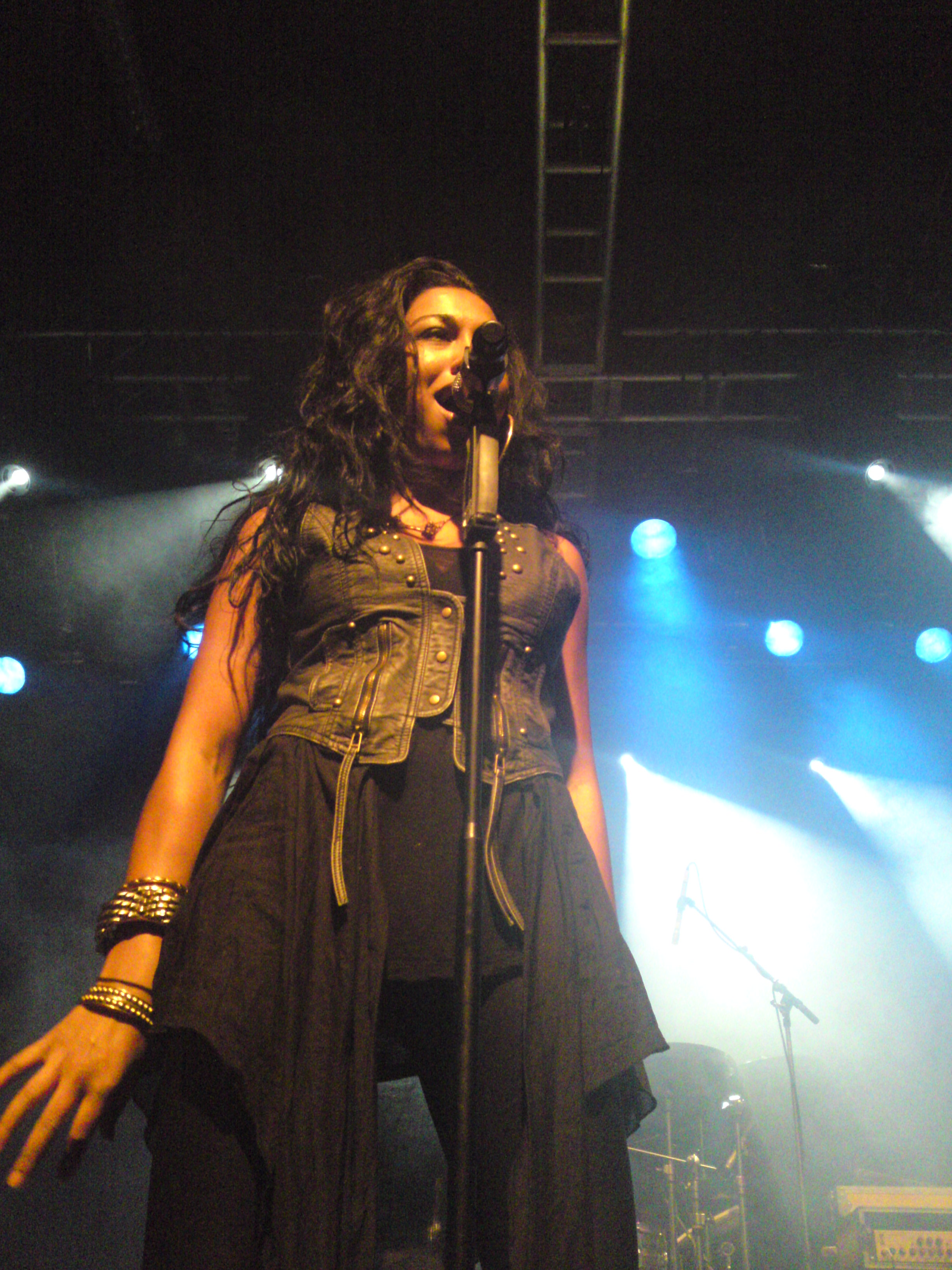 Melanie Fiona performs in Bern, Switzerland at the club Bierhübeli.